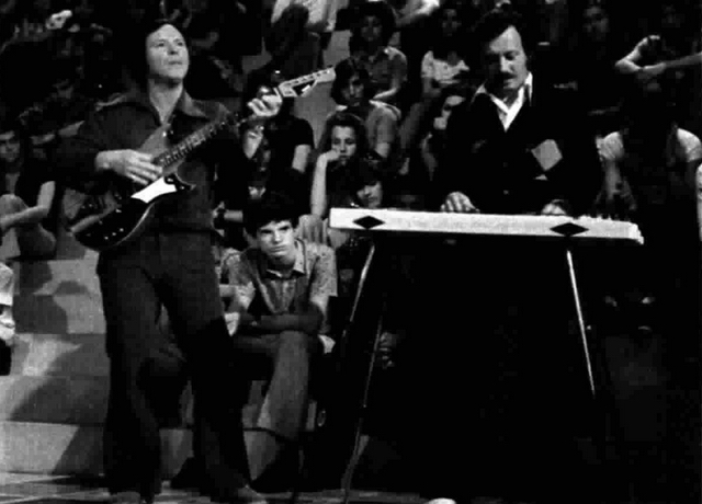 Santo & Johnny, guests of the Italian show Tutto è pop, Turin, 1972